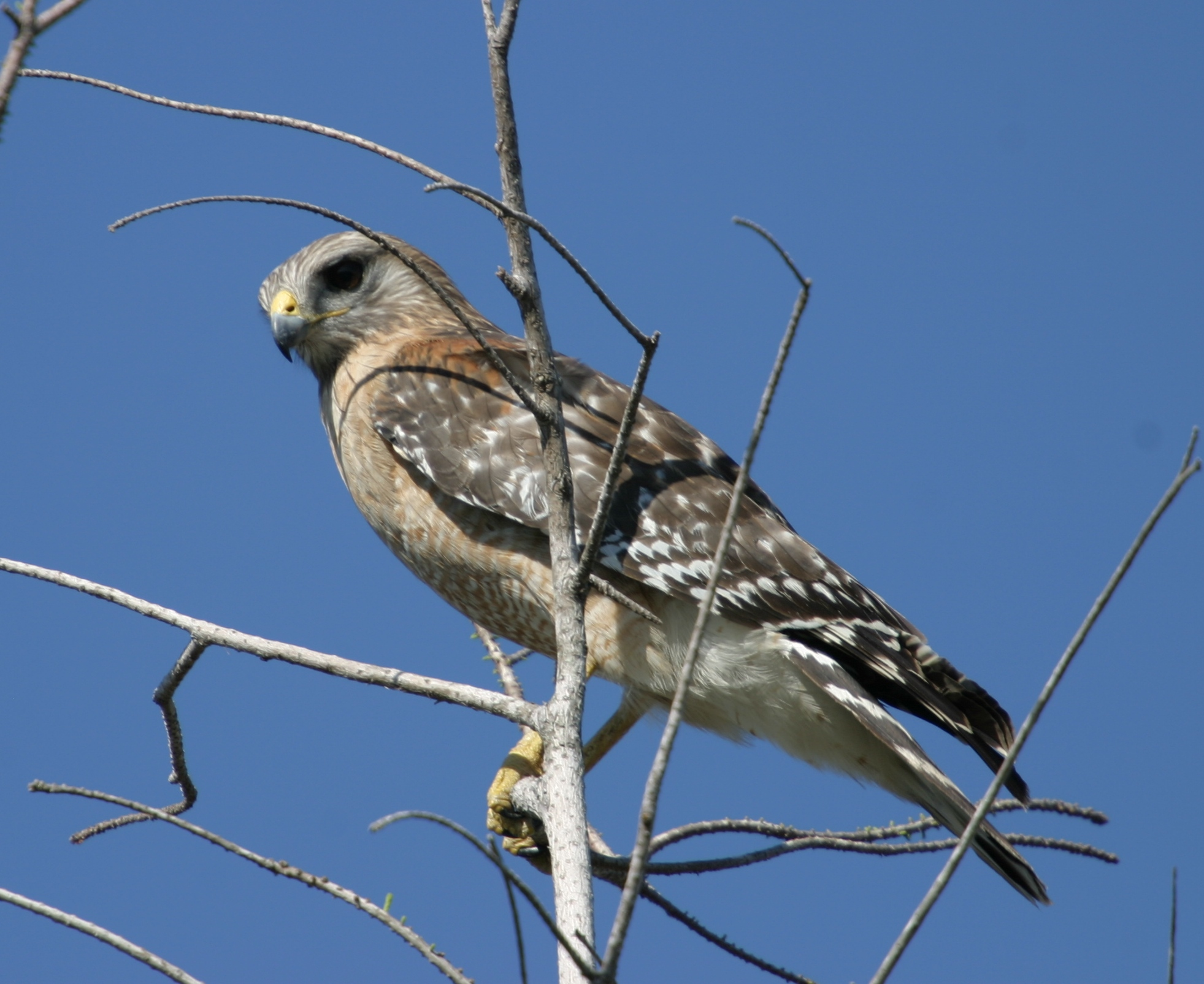 Red-shouldered Hawk Buteo lineatus extimus, Everglades National Park, Florida